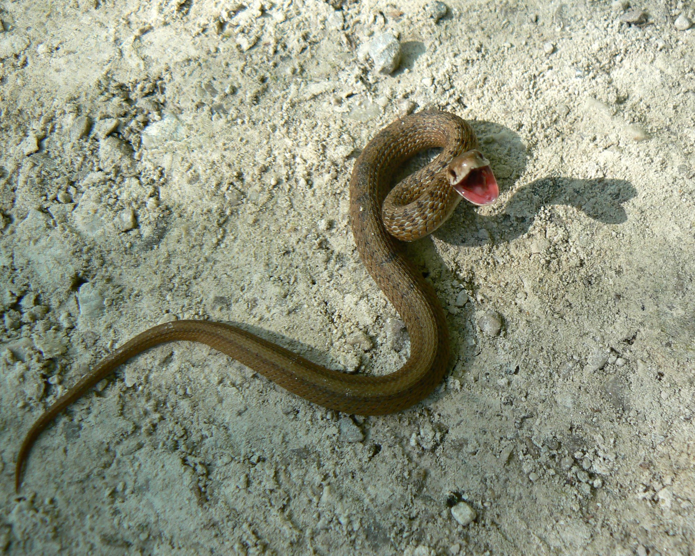 Storeria dekayi This small snake, around 6 inches long, was feeling fierce nonetheless.